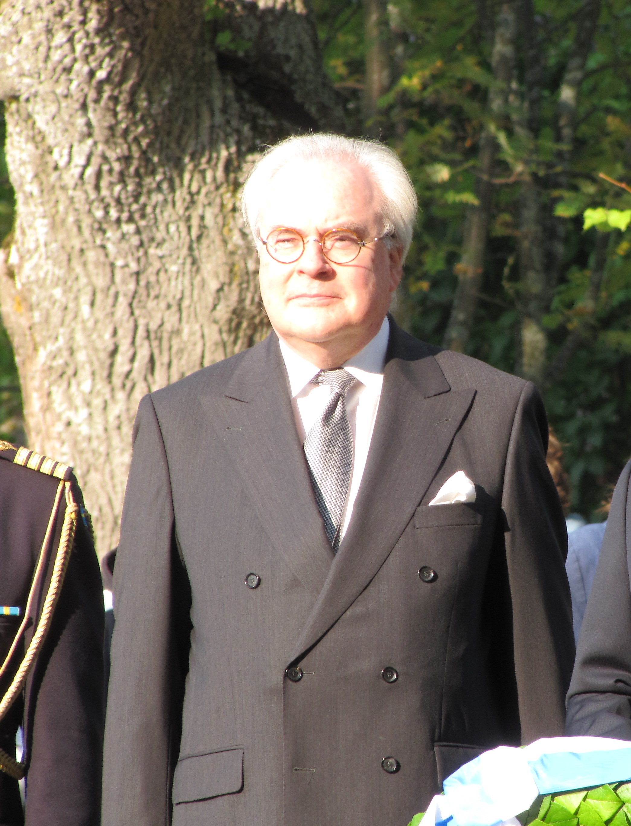 Swedish ambassador Johan Molander. Photographed in Suomenlinna at the 300th birthday ceremony of Augustin Ehrensvärd.